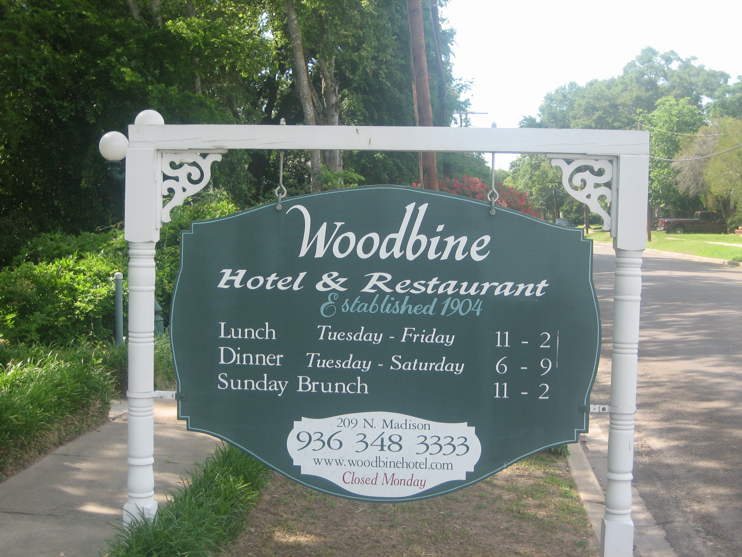 sign in front of Woodbine Hotel & Restaurant, 209 N. Madison St., Madisonville, Texas